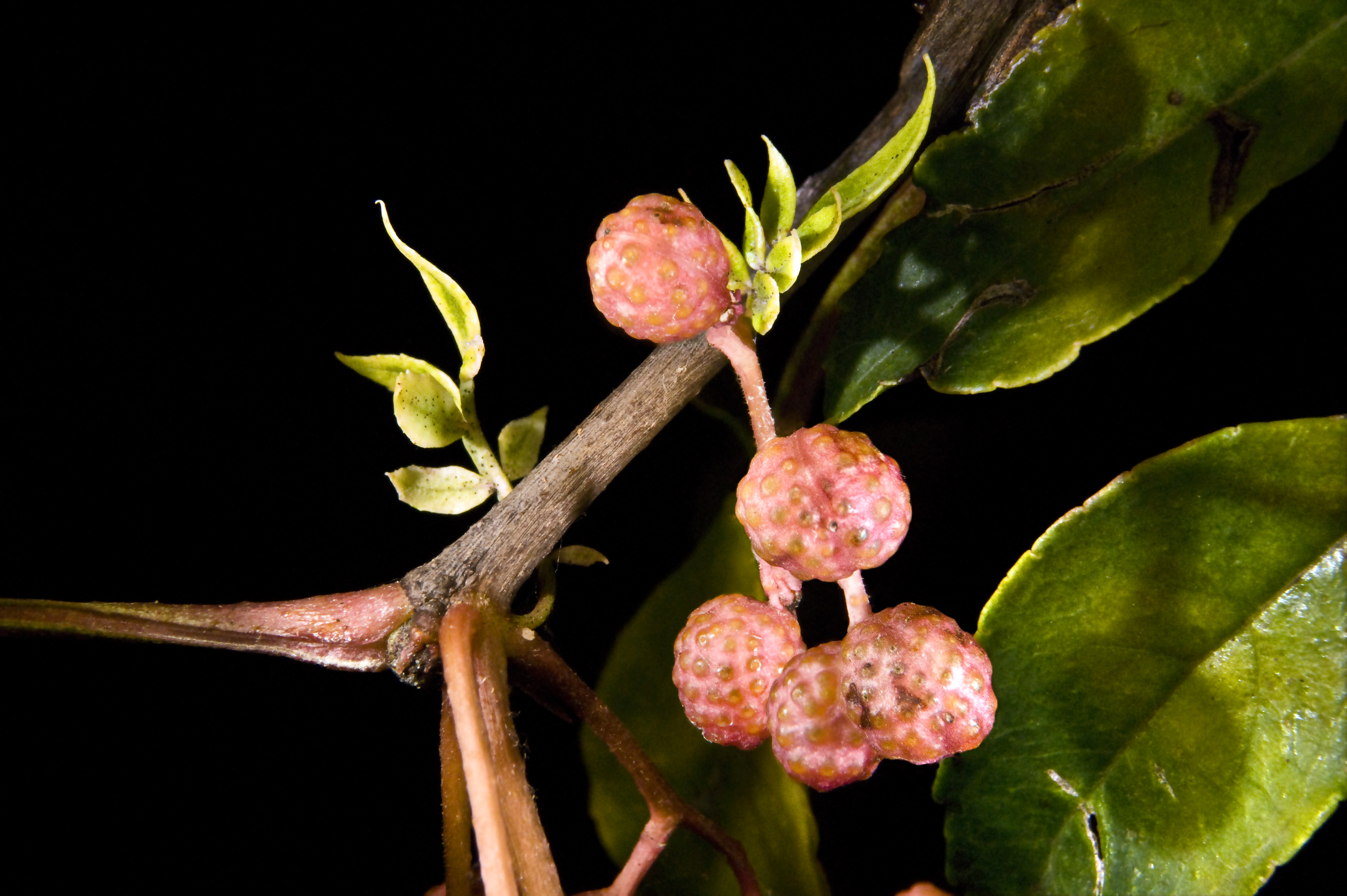 Sichuan pepper (Zanthoxylum piperitum) fruits